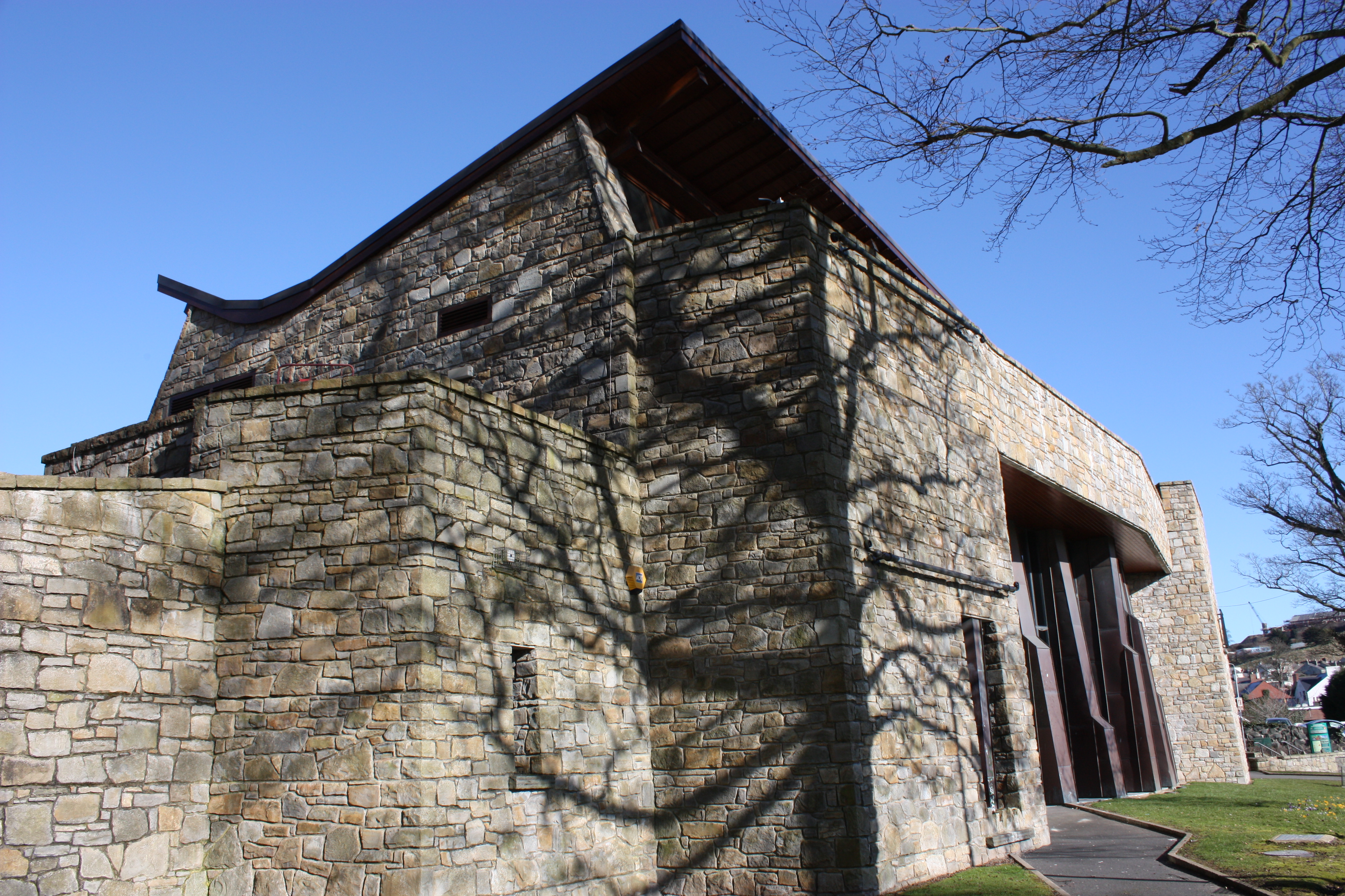 The Saint Patrick Centre, St Patrick Square, Downpatrick, County Down, Northern Ireland, February 2010